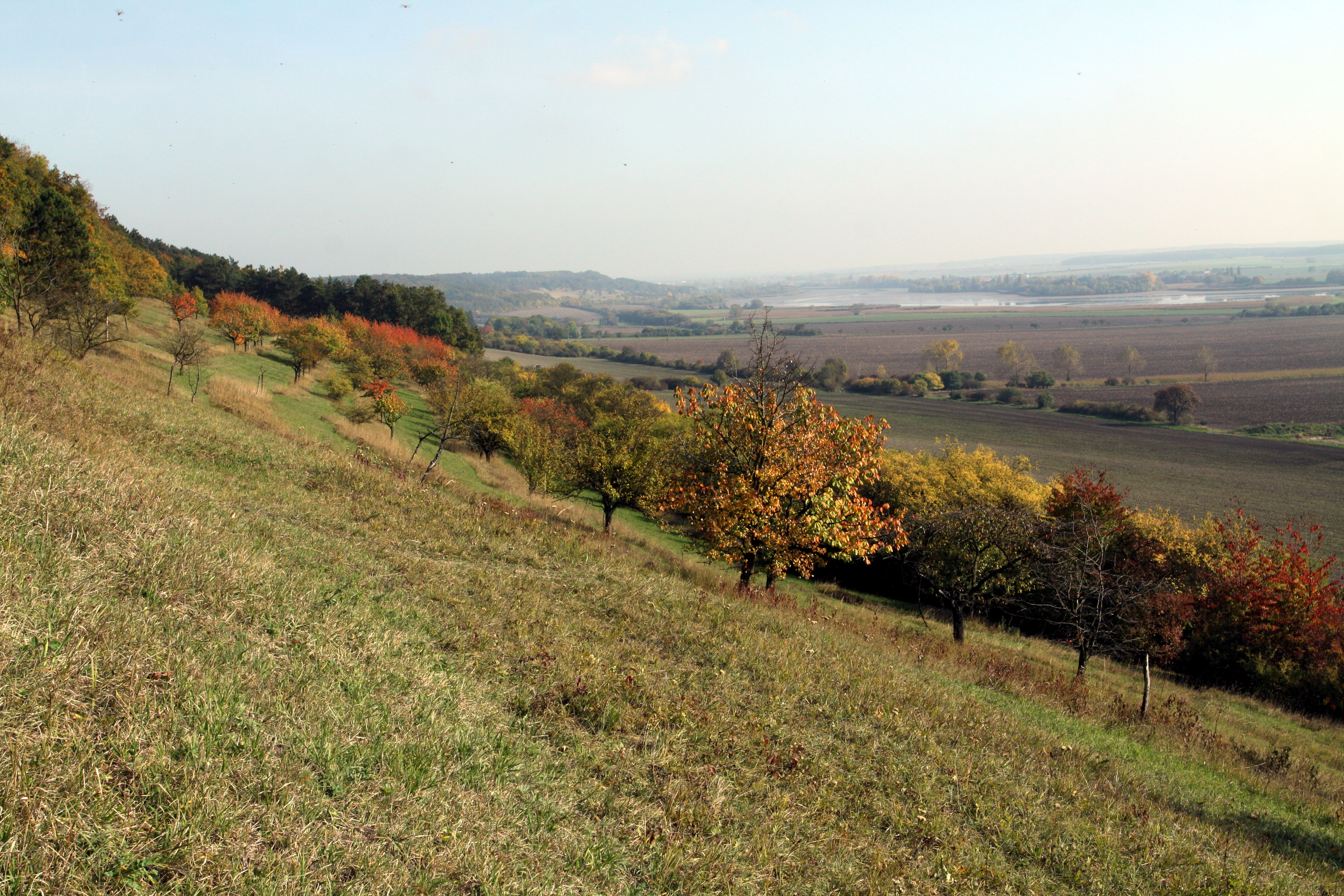 Natural monument Báň near Hradčany village in Nymburk District, Czech Republic - Google Maps - Google Earth